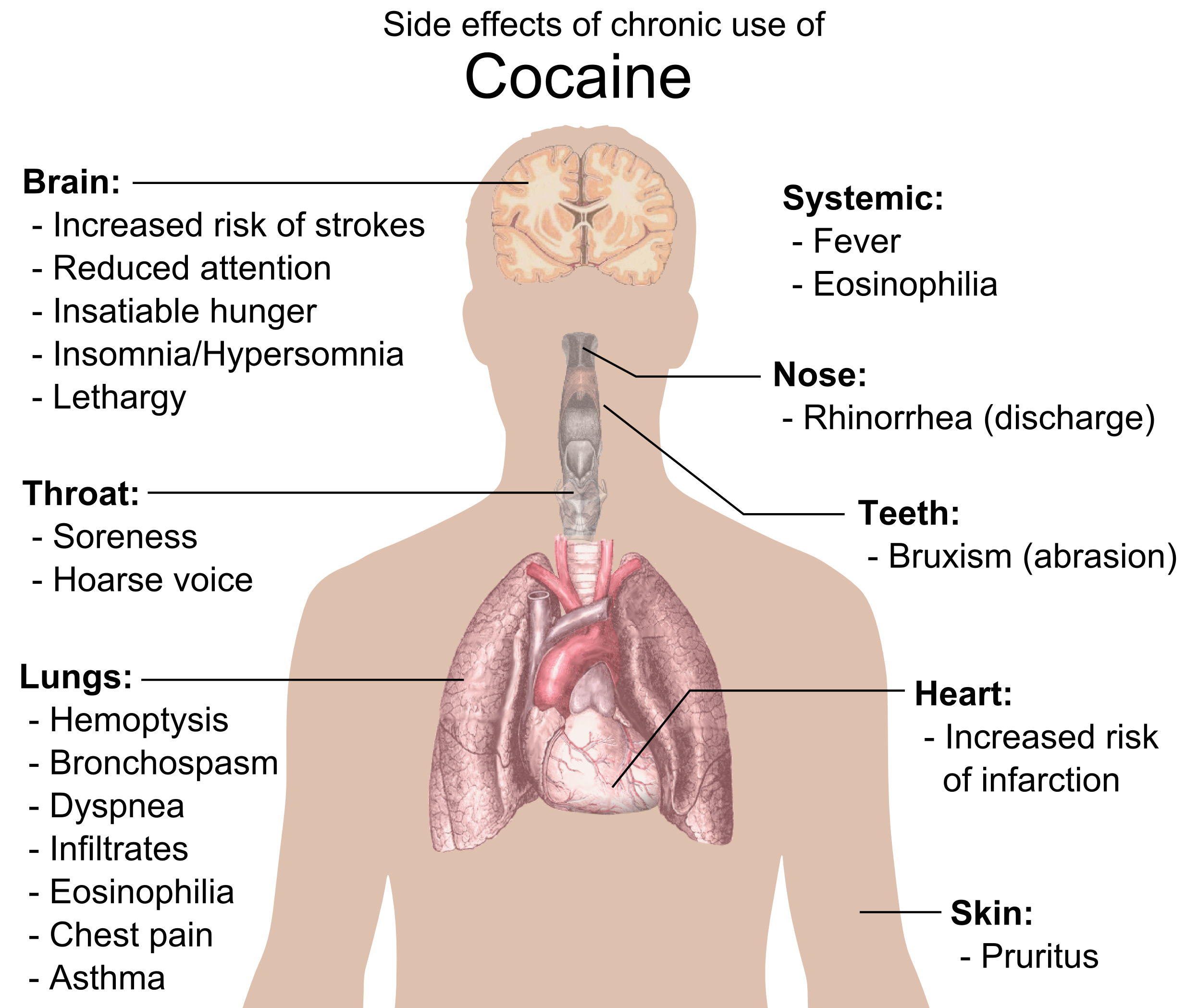 Main side effects of chronic use of cocaine. Sources are found in main article: Wikipedia:Cocaine#Chronic. To discuss image, please see Template talk:Human body diagrams